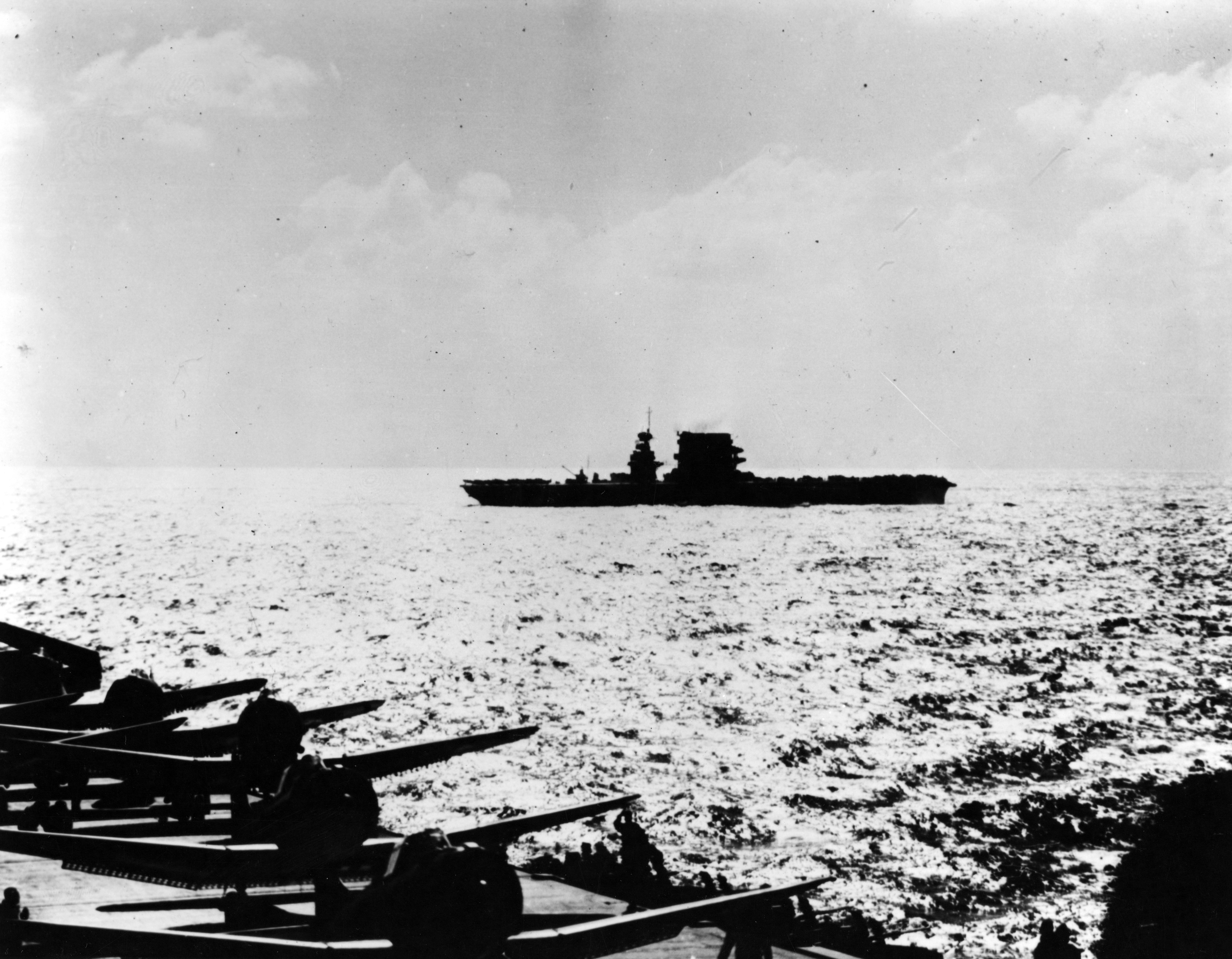 The U.S. Navy aircraft carrier USS Lexington (CV-2) during the Battle of the Coral Sea, seen from USS Yorktown (CV-5), 8 May 1942. Large number of planes on deck and low sun indicate that the photo was taken early in the morning, prior to launching the strike against the Japanese carrier force. Yorktown has several Douglas SBD Dauntless and Grumman F4F-3 Wildcat on deck with engines running, apparently preparing to take off. Lexington, whose silhouette has been altered by the earlier removal of her 8-inch gun mounts, has planes parked fore and aft, and may be respotting her deck in preparation for launching aircraft.